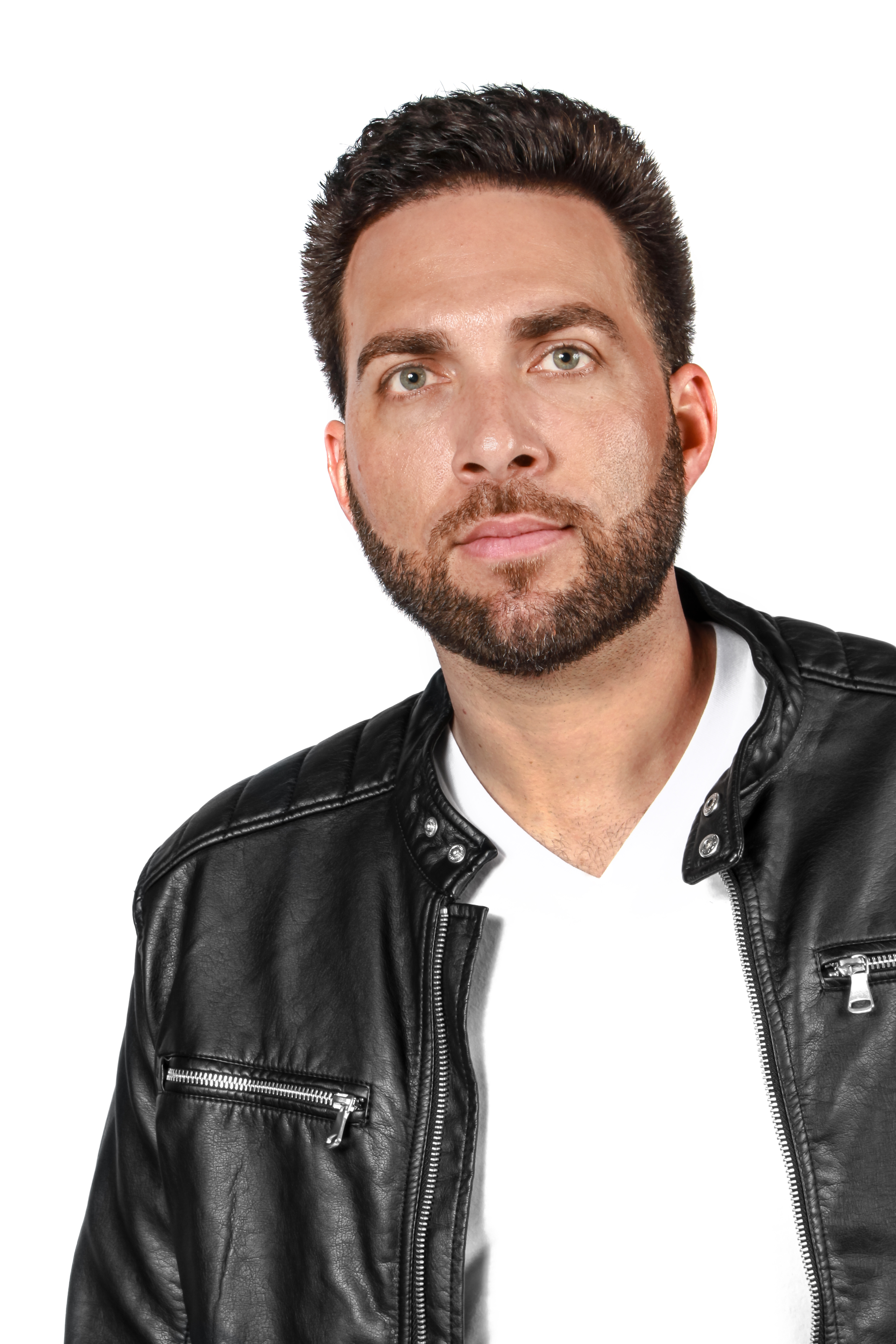 Rawsrvnt Press Photo 2015